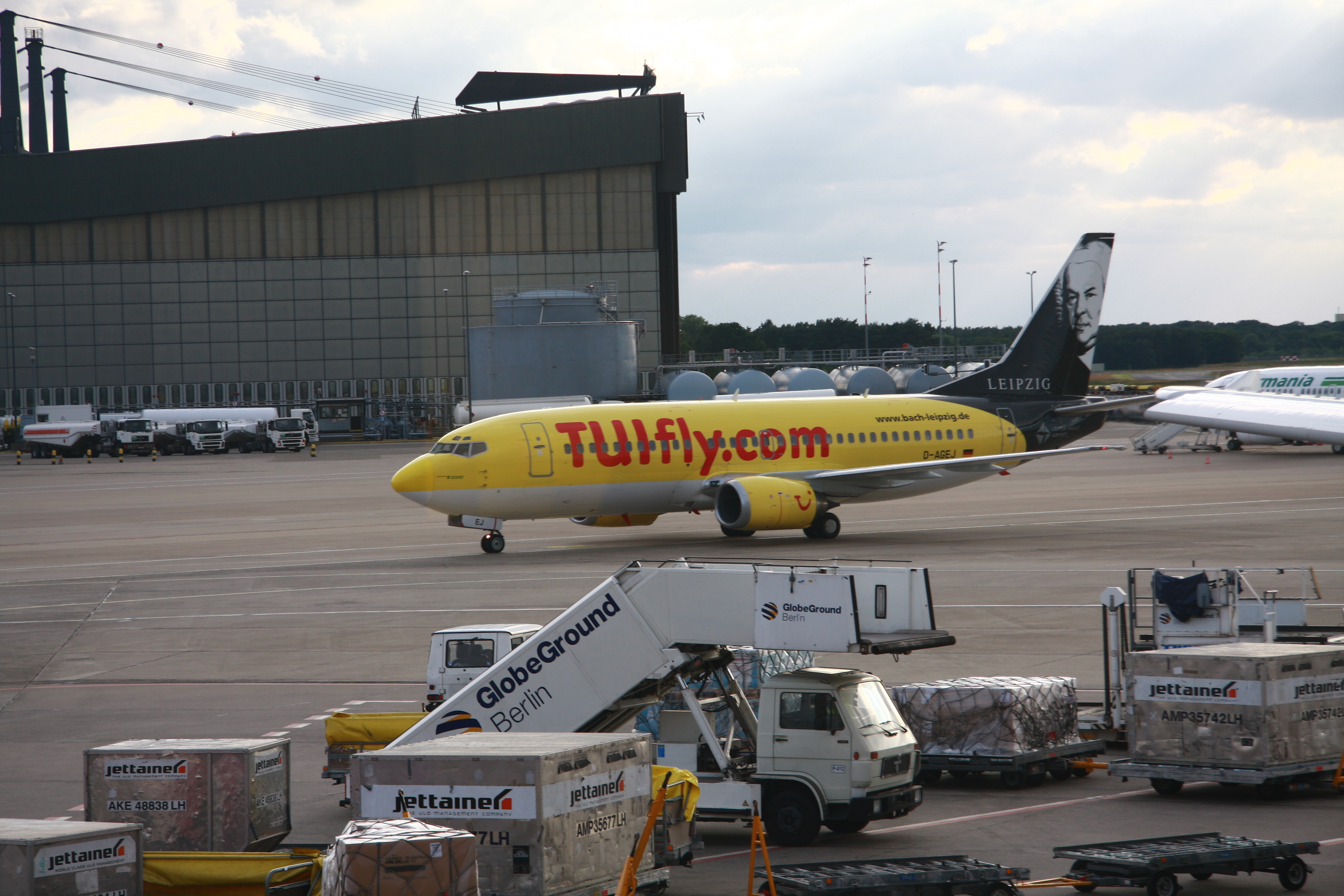 A Boeing 737-300 (registration D-AGEJ) with the picture of Johann Sebastian Bach on its vertical stabilizer